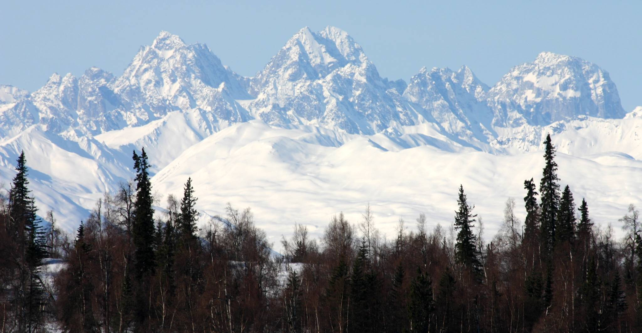 Taken on a long weekend road trip from Anchorage to Fairbanks in March 2008. I took these shots while traveling on the Parks highway.